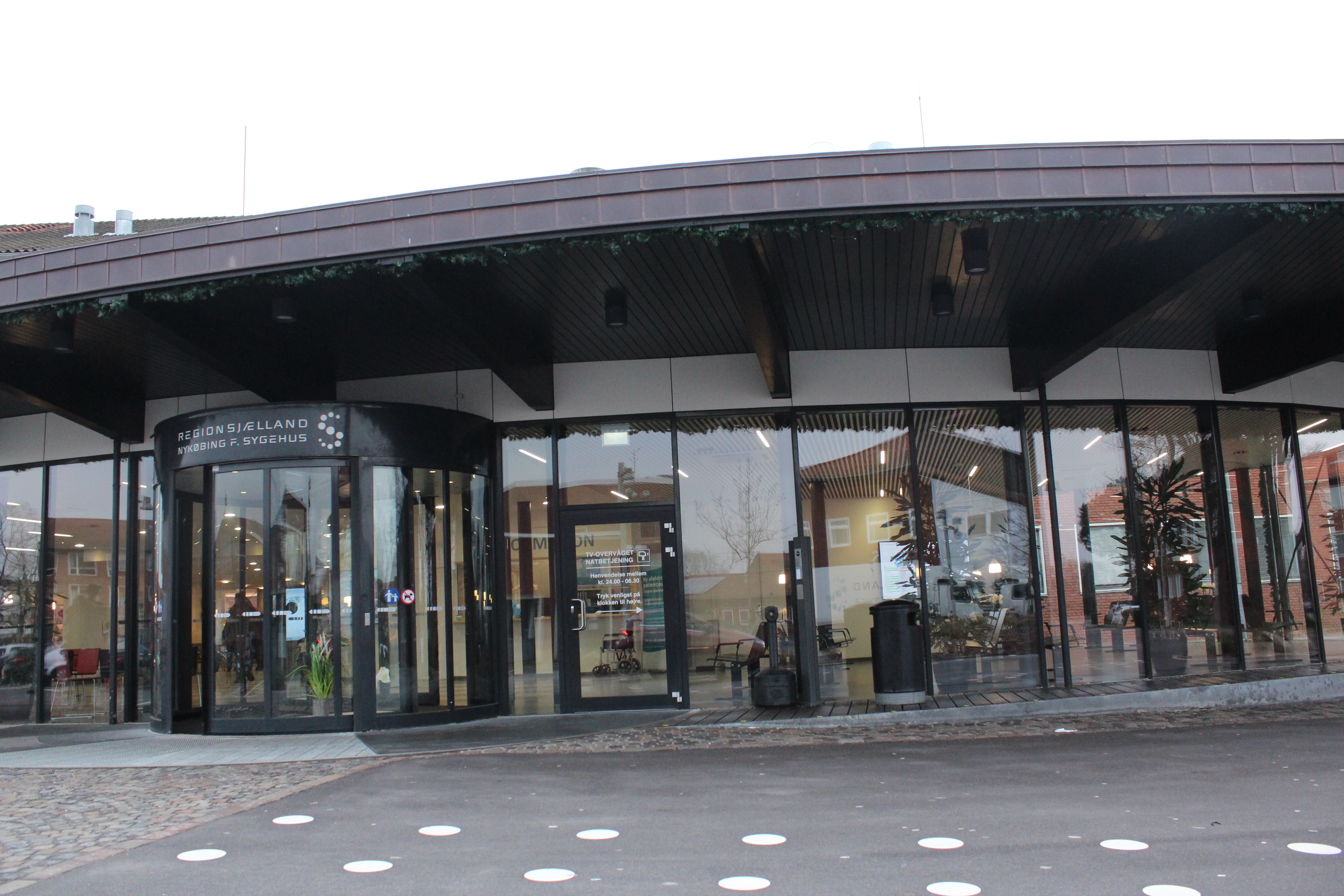 Hospital in Nykøbing Falster. Entrance